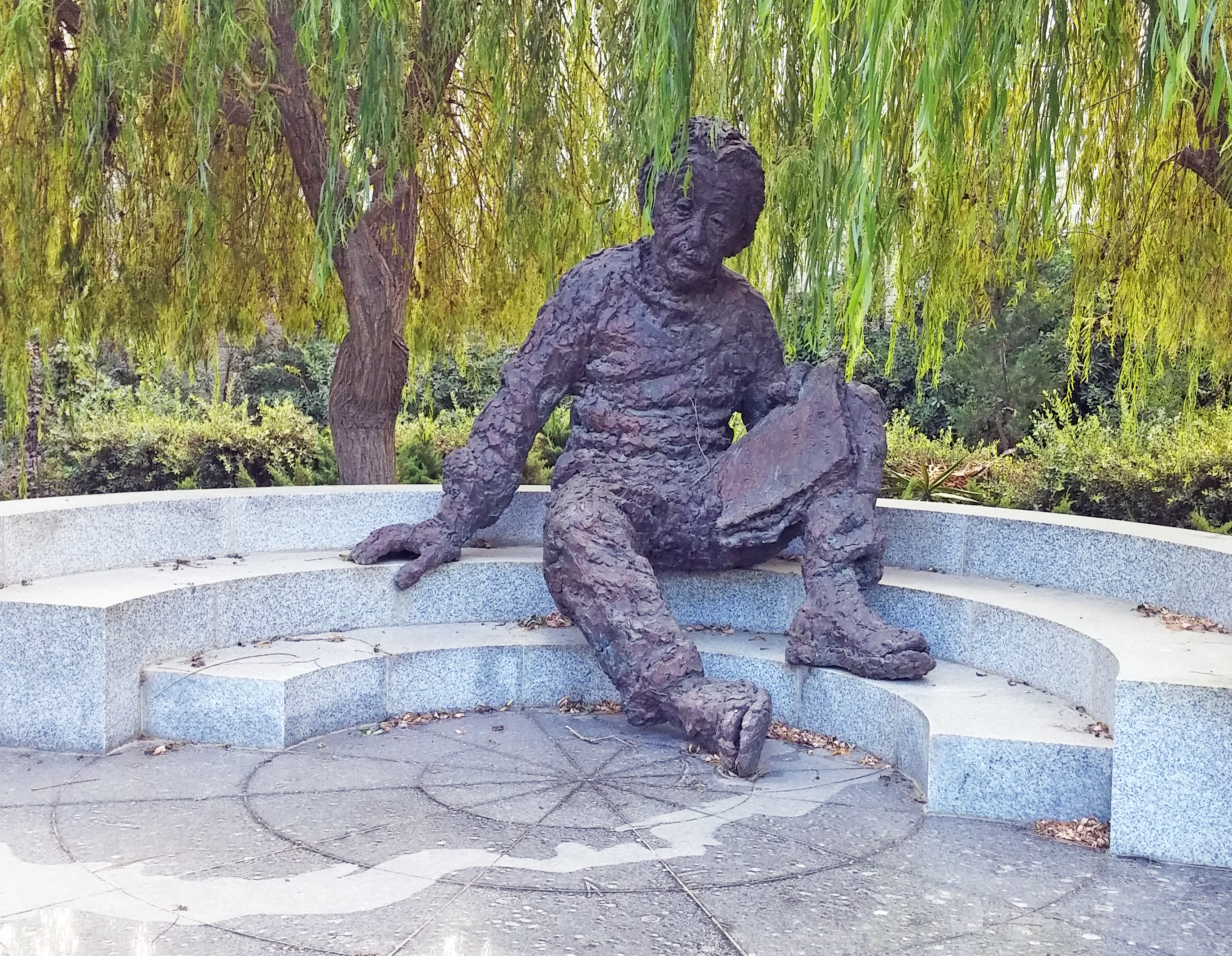 Van Leer Institute in Jerusalem